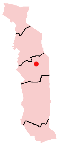 Sokodé, Togo Location Map; created with the GIMP. Made by User:Acntx.